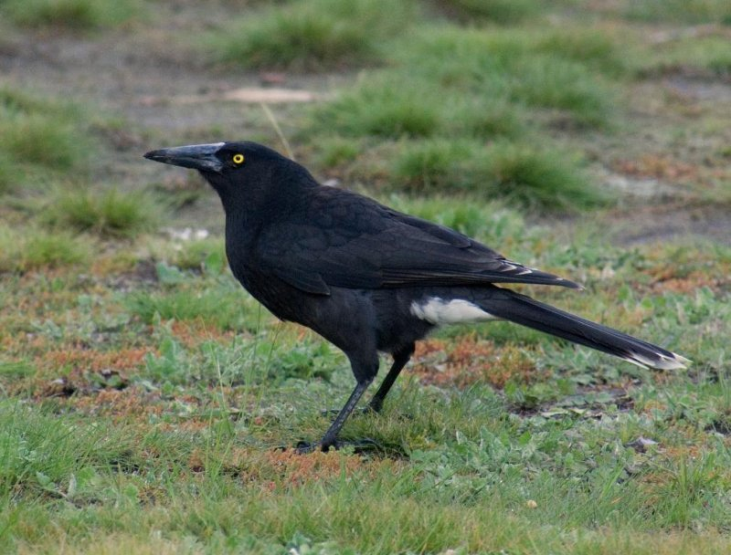 Tasmanian race of Grey Currawong, known as Clinking Currawong (Strepera versicolor arguta).